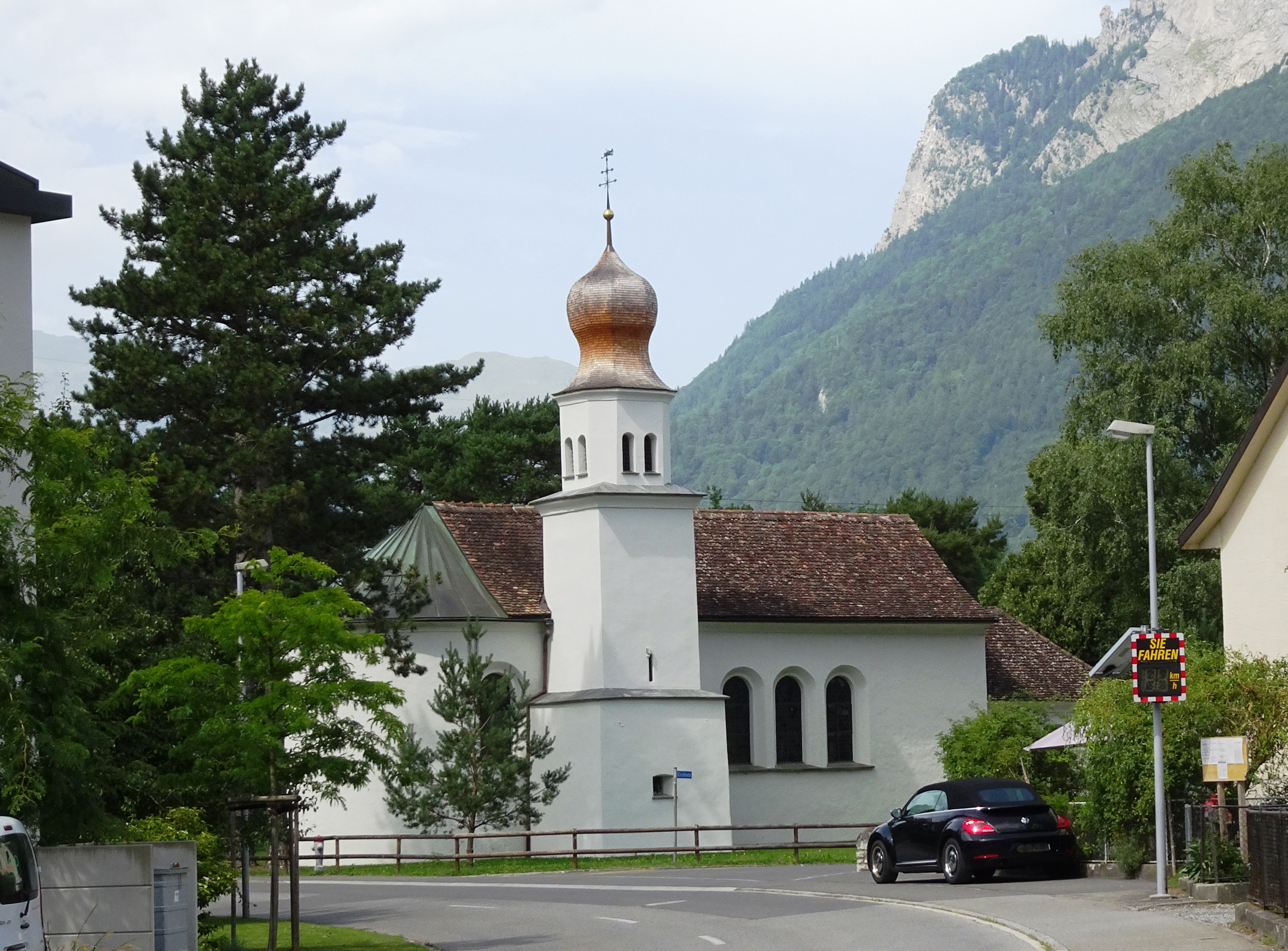 Saint Mary of Help chapel in Balzers, Liechtenstein